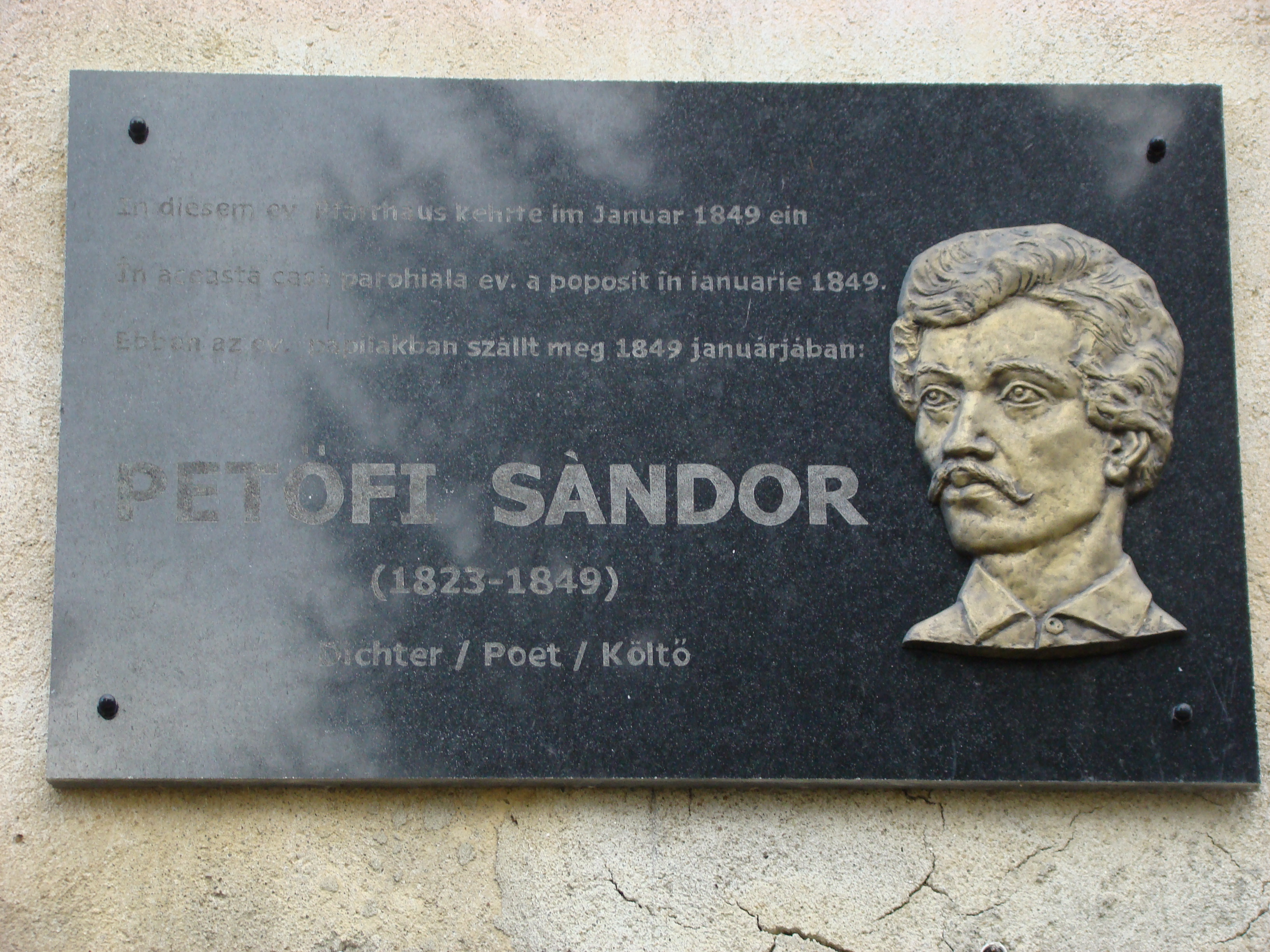 Petőfi memorial plate in Slimnic (Szelindek, Stolzenburg), Sibiu County, Romania